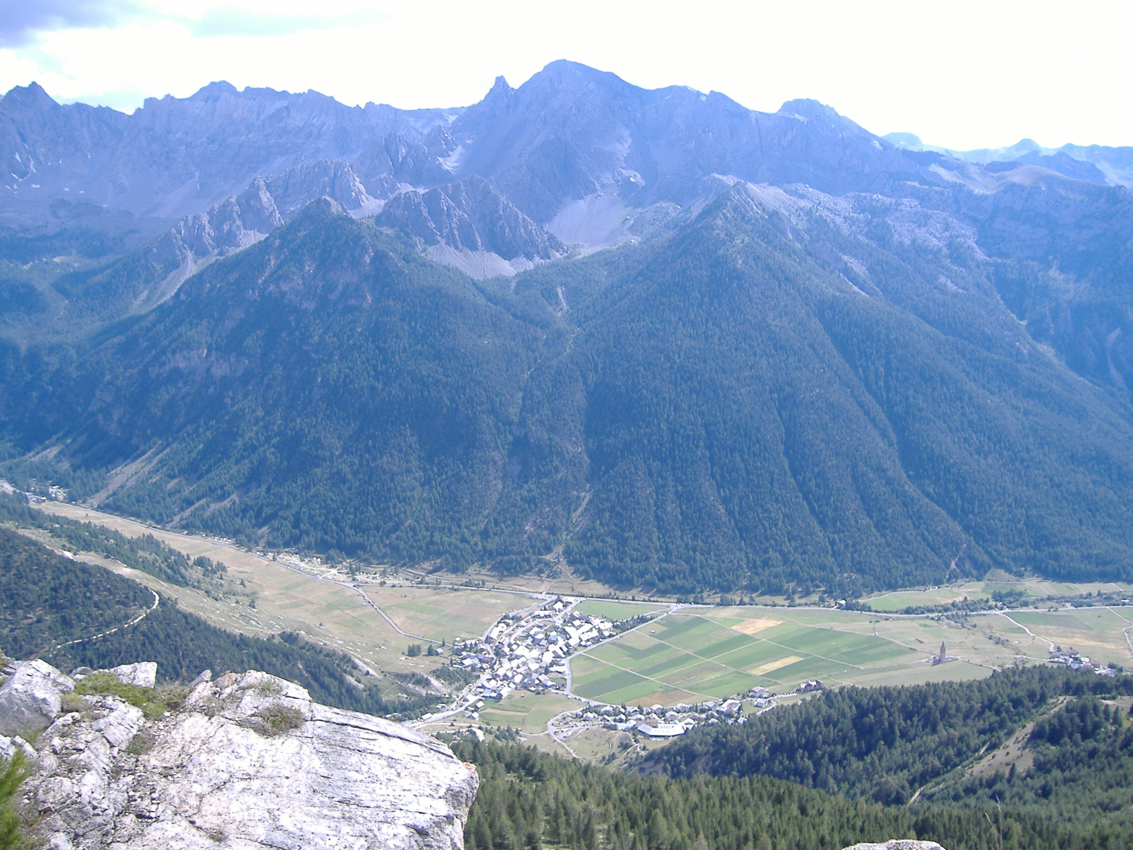 View of Ceillac, small town in France